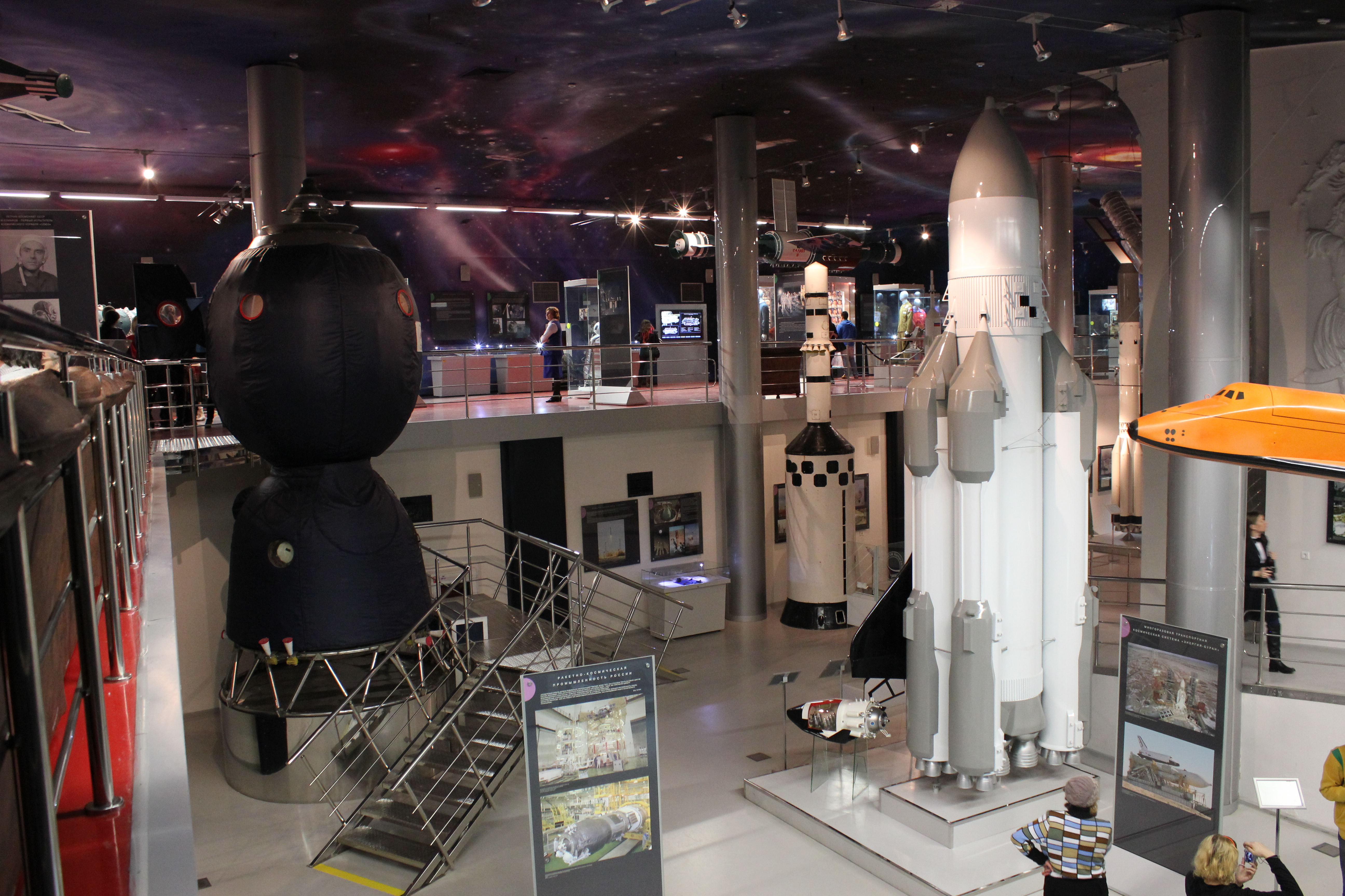 Memorial Museum of Astronautics